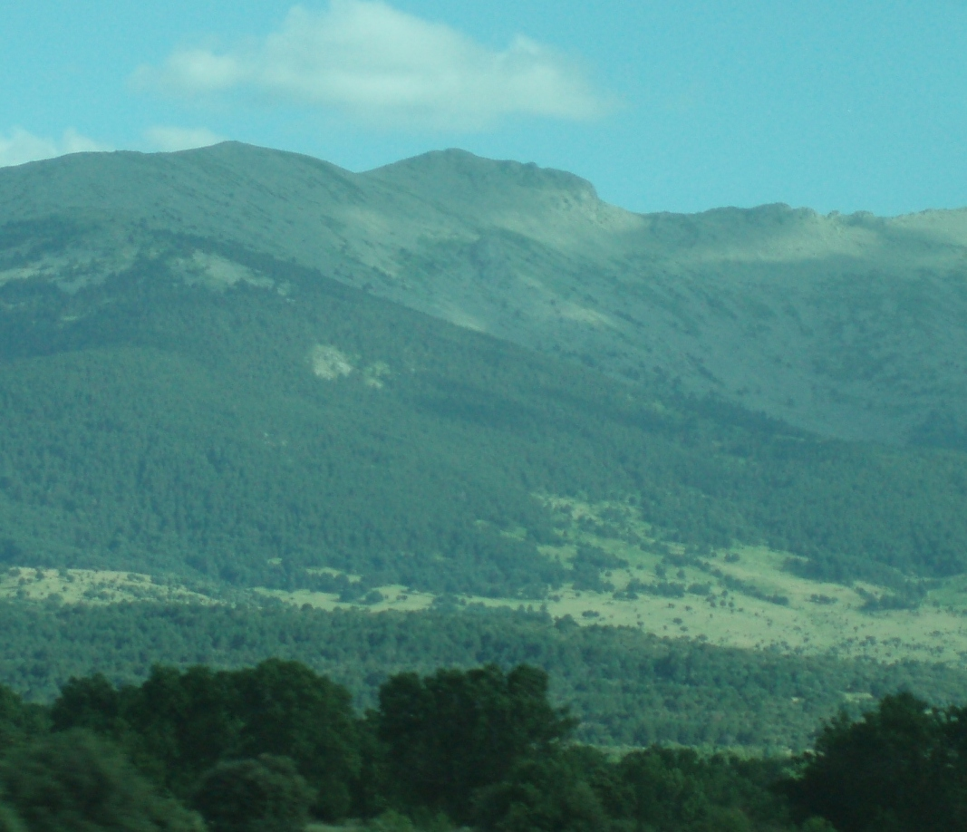 La Pinareja mountain, Guadarrama mountain range, Central Spain.